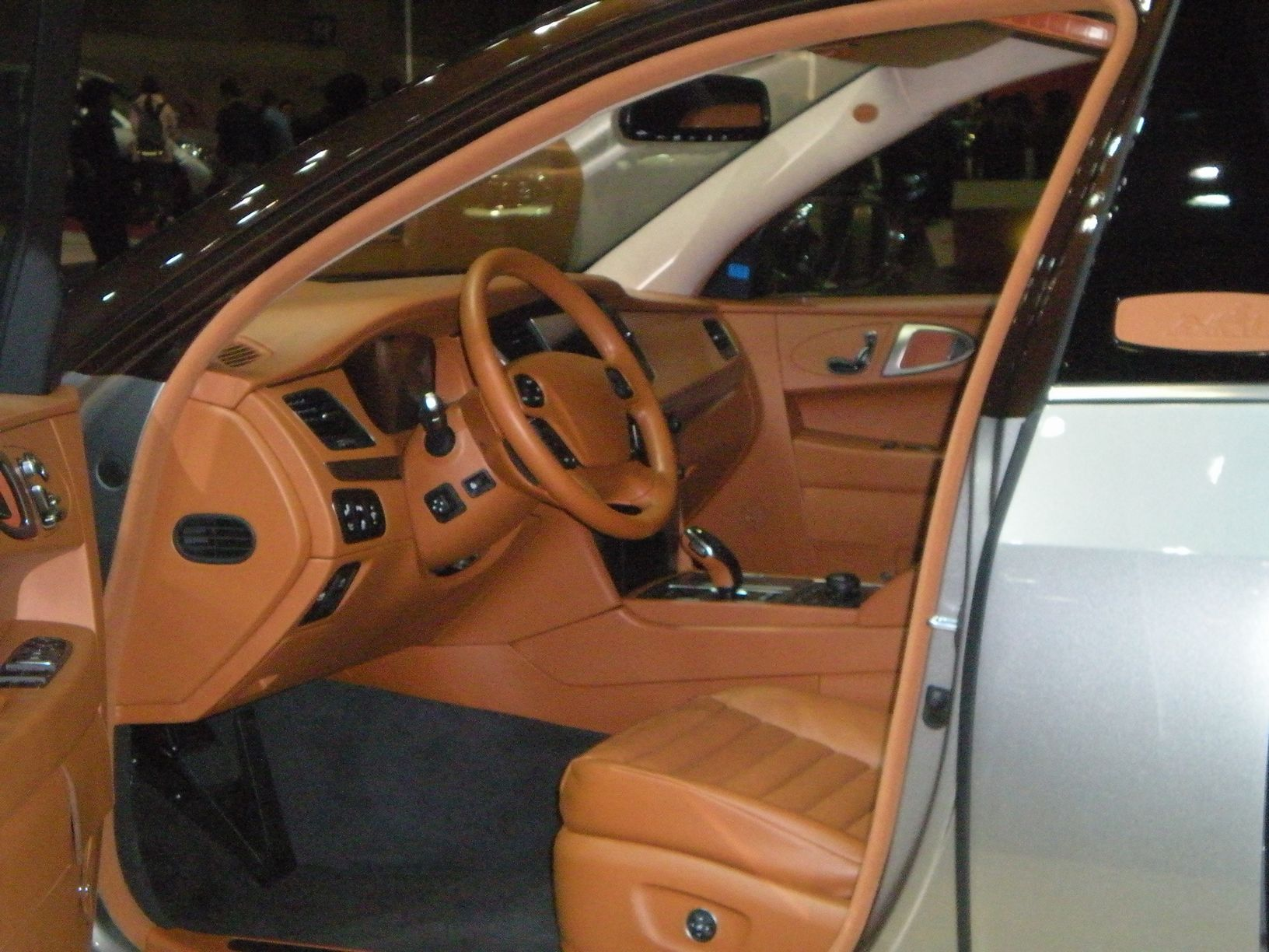 HYUNDAI EQUUS